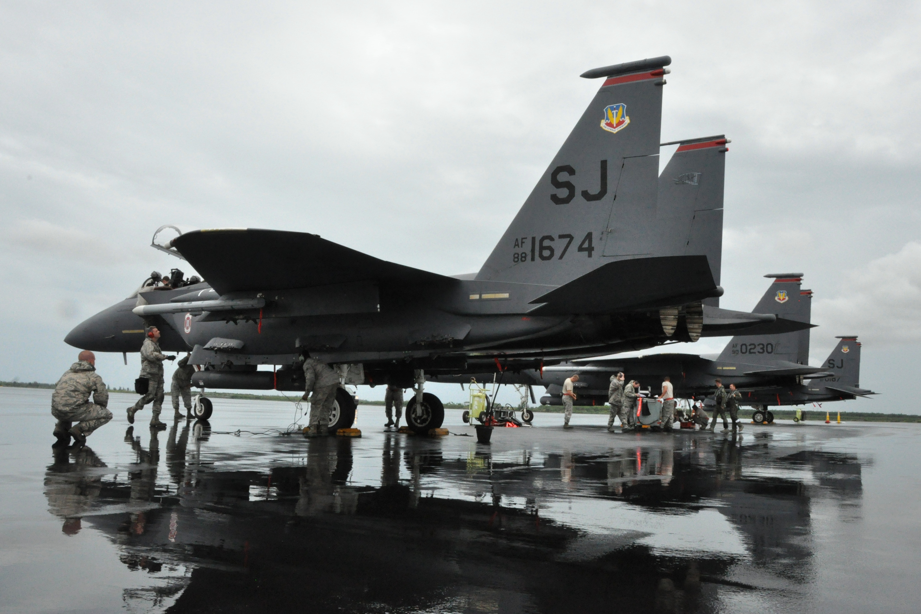 May 13, 2012